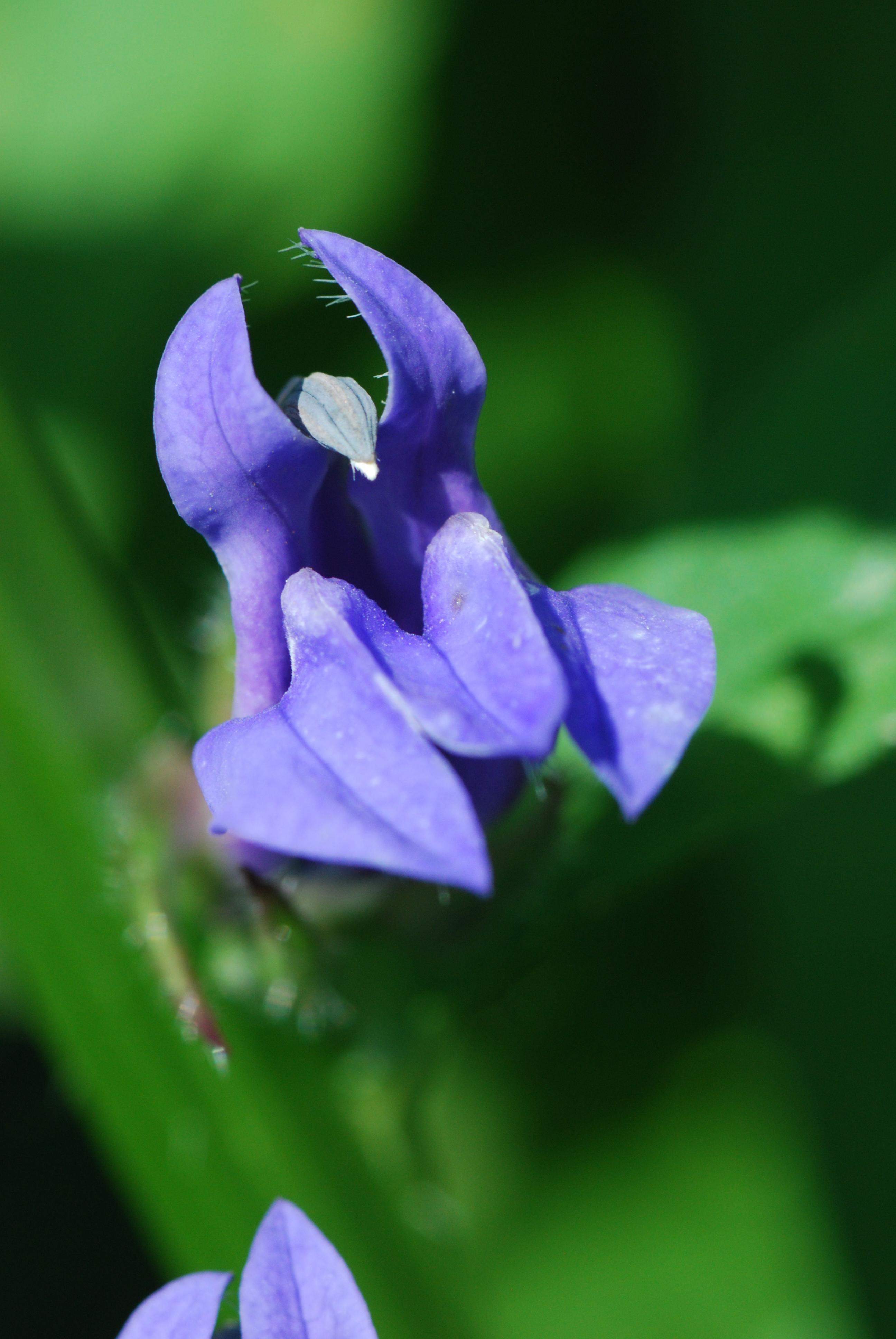 Detroit Harbor Wisconsin State Natural Area #413 Door County